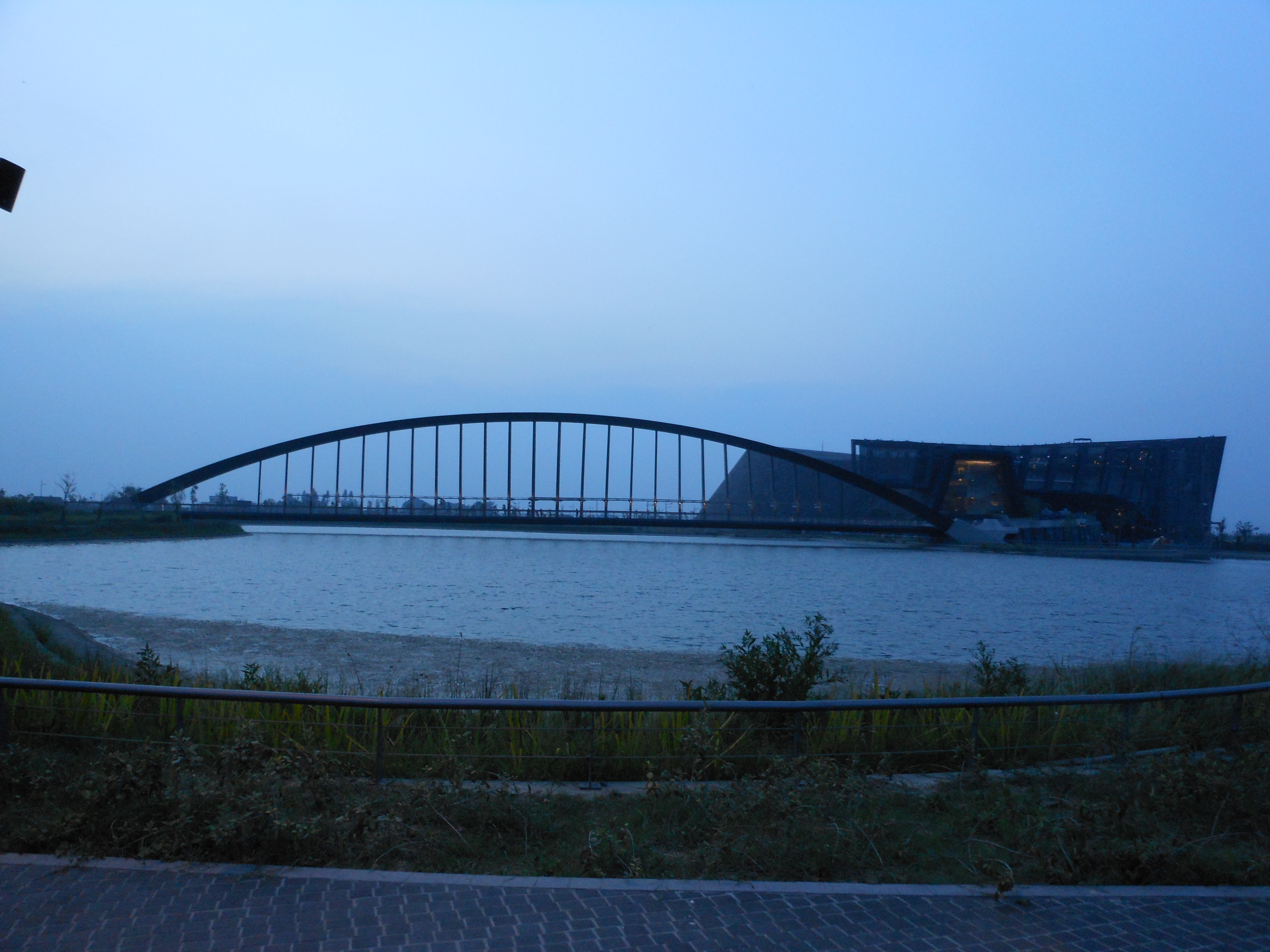 Taiwan's National Palace Museum Southern Branch